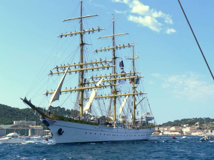 "Mircea" at Toulon, Tall ship Race 2007